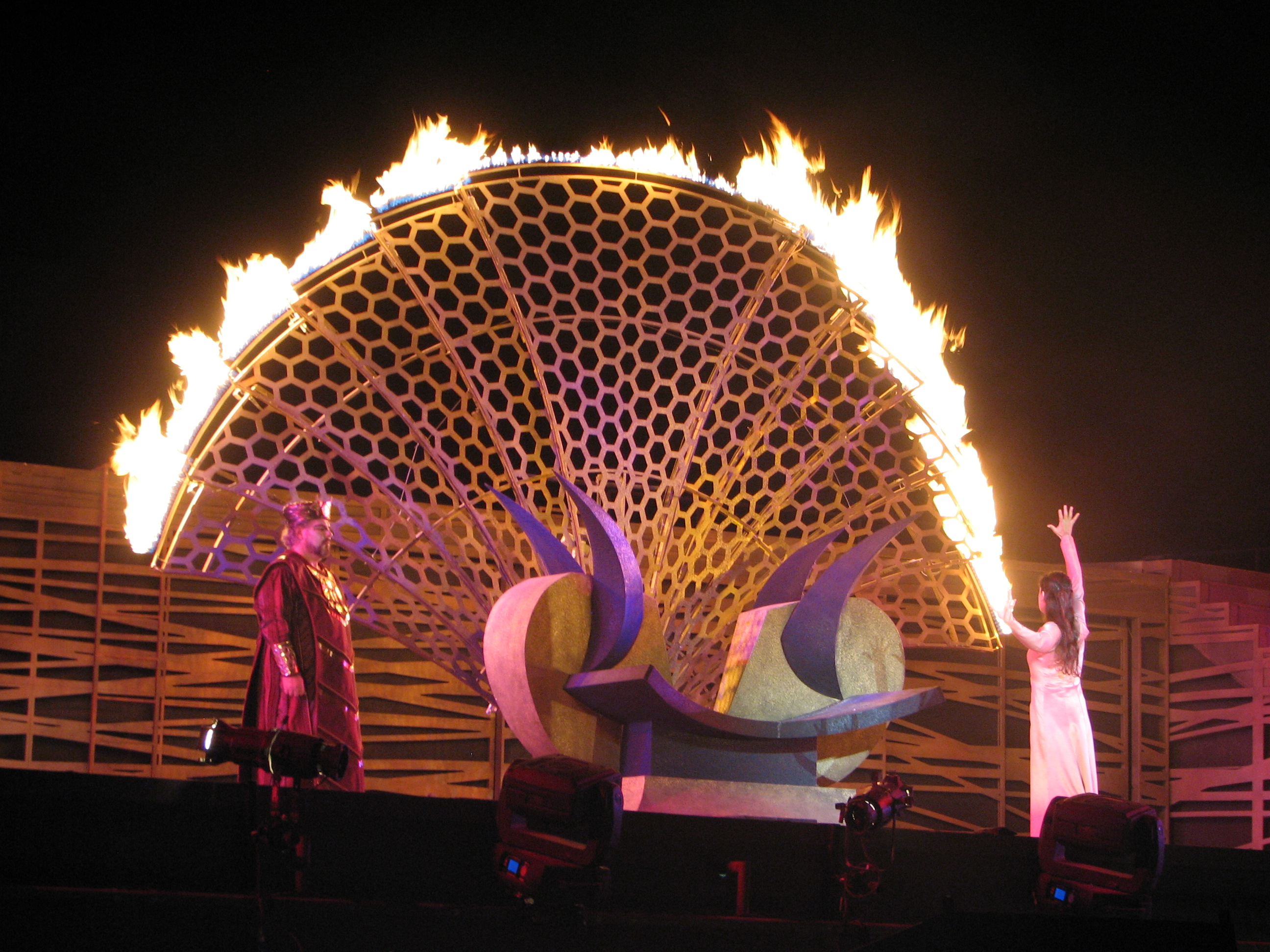 Nabucco is an opera in four acts by Giuseppe Verdi. - Nabucco on Masada in Israel. Conductor Daniel Oren נַבּוּקוֹ (